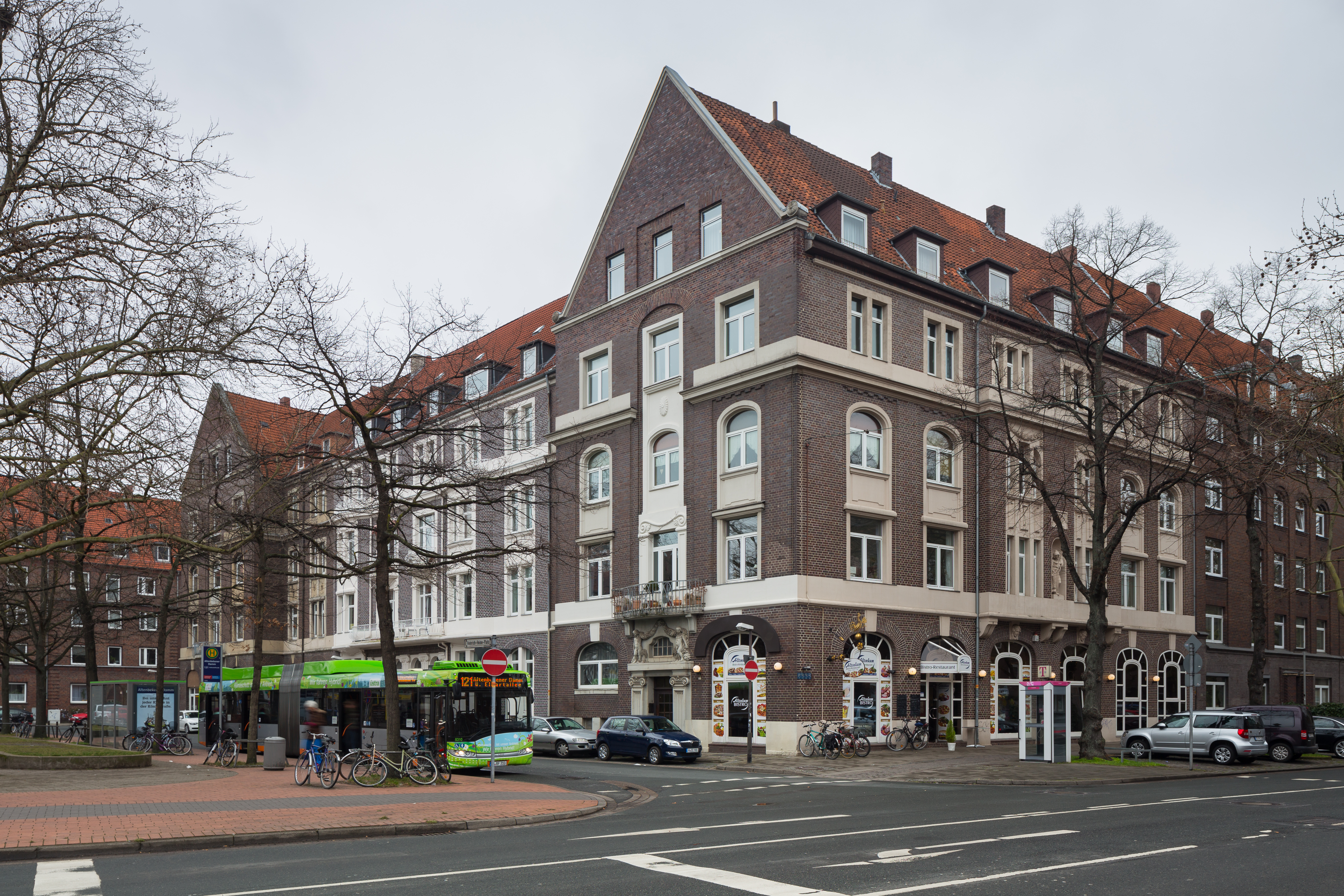 Apartment house located at Heinrich-Heine-Platz square in Suedstadt district of Hannover, Germany.